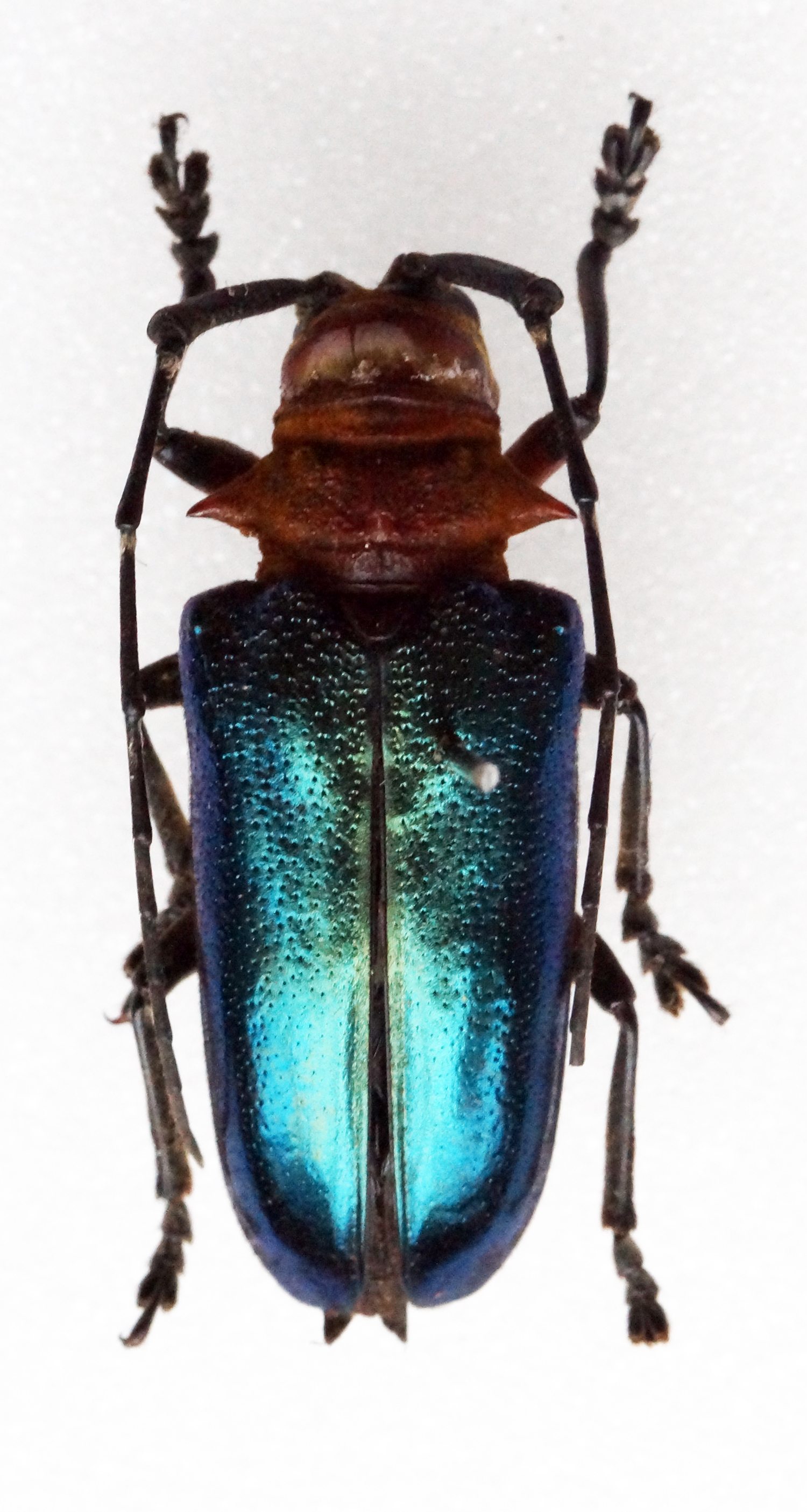 Aurivillius,1911 Sex: Female Data: 07-2014 - Brookes Point - Palawan Island - 400-700m - Philippines Size: 22mm